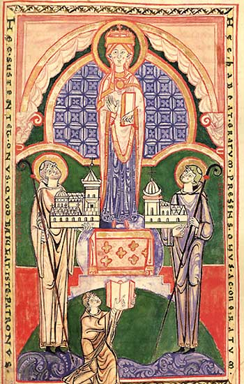 Romanesque miniature with the three founders of the Citeaux order: Robert of Molesme, Alberic of Citeaux and Stephen Harding.